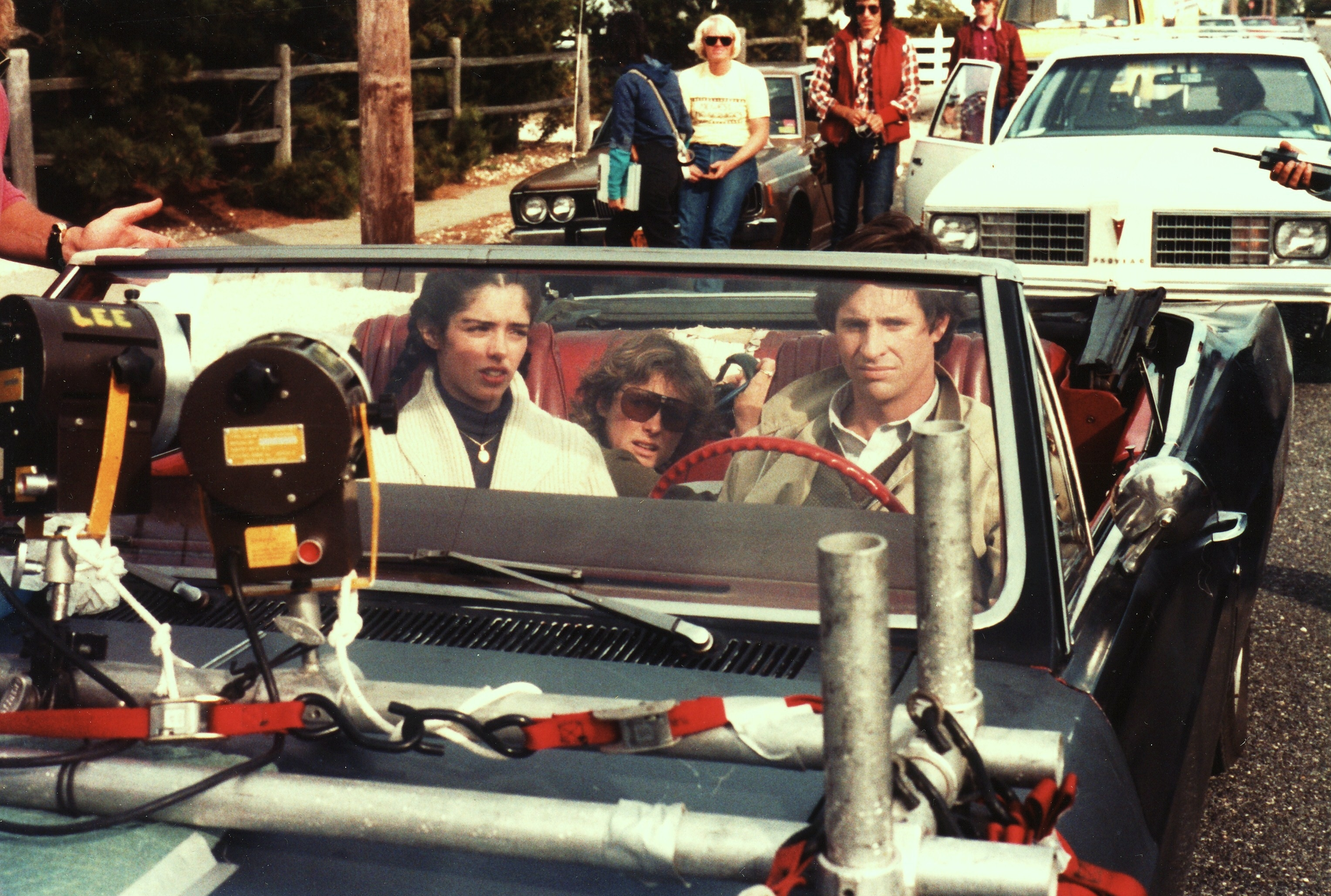 American actors Kathleen Beller and Robert Hays filming Touched in Brigantine New Jersey. 35mm.